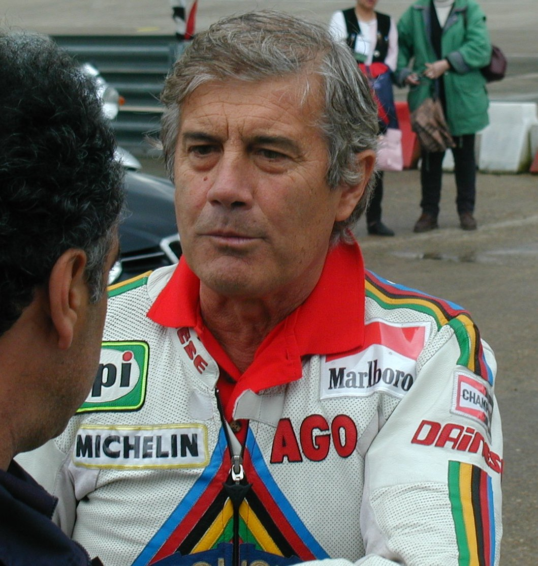 Giacomo Agostini in 2003, in Monthlery - Still young ! Picture : Gérard Delafond